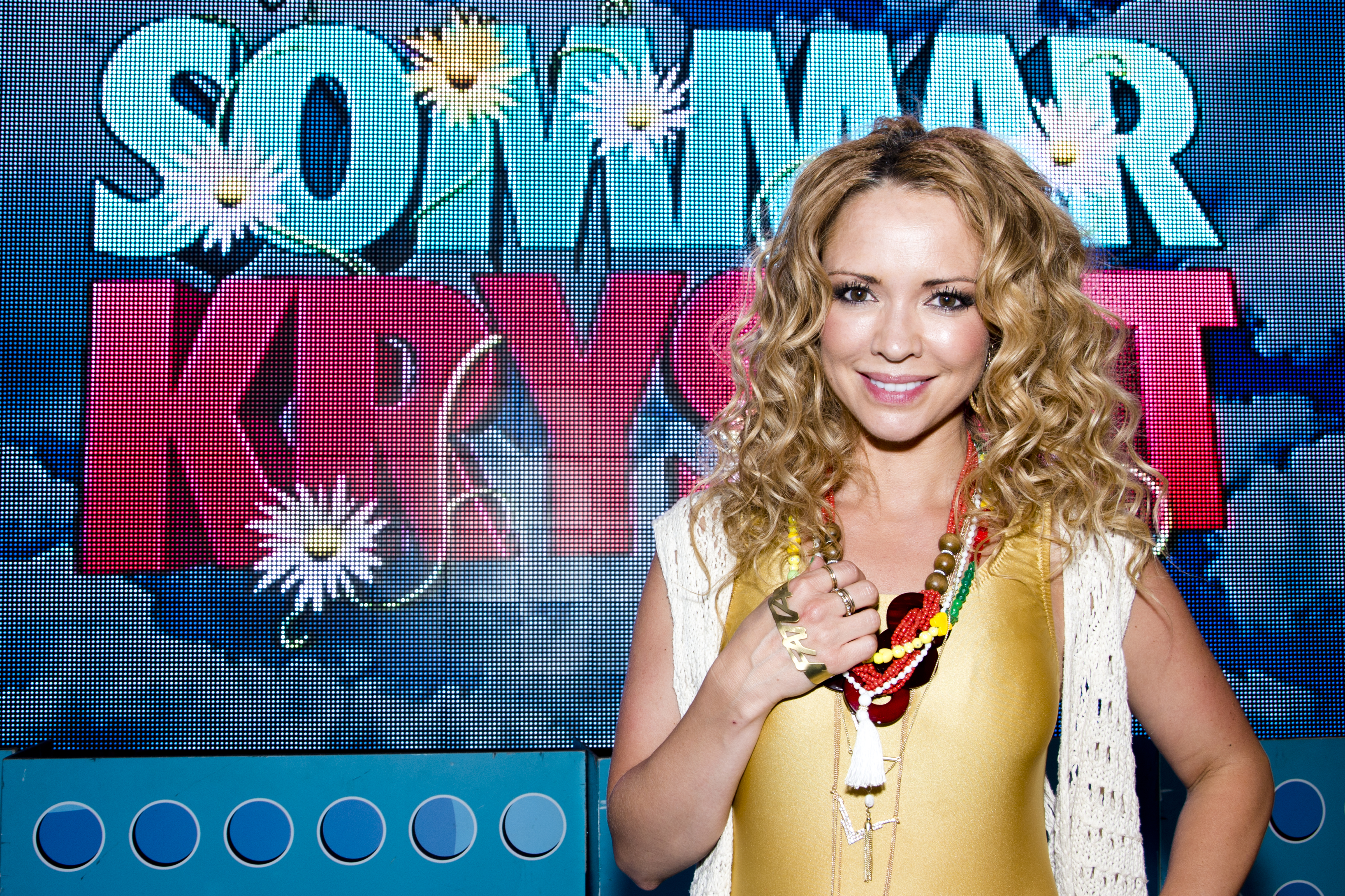 Sahlene visit sommarkrysset in Stockholm at Gröna Lund